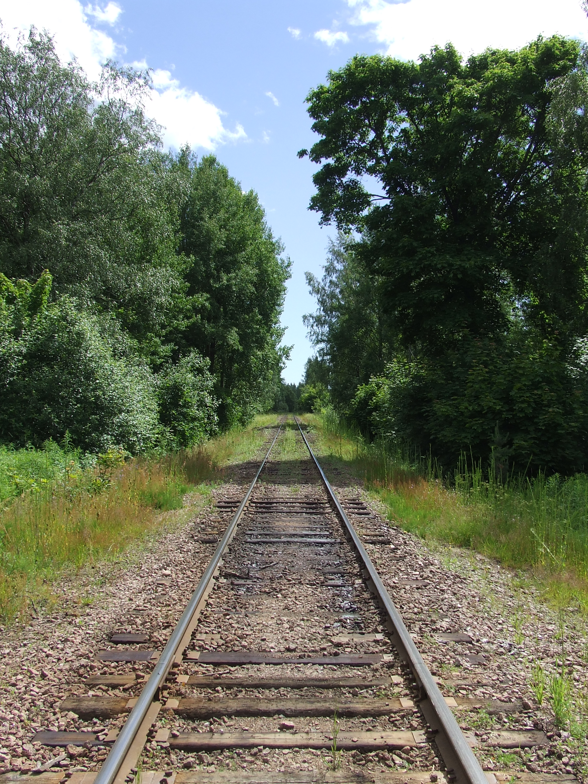 Karhula–Sunila railway in Kotka, Finland.